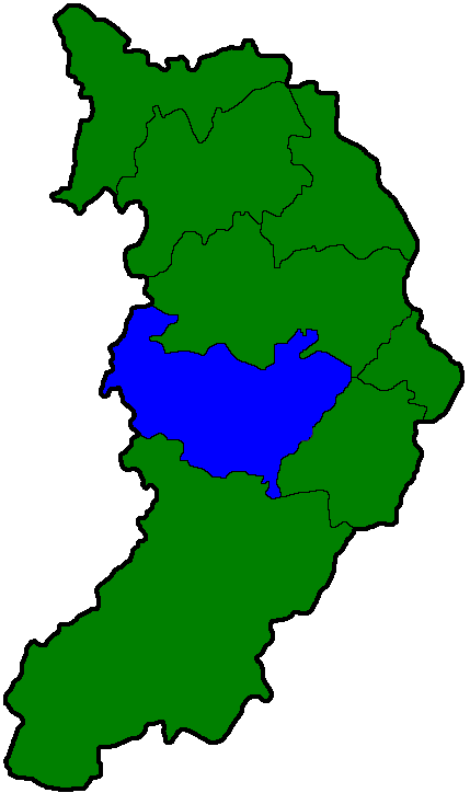 District (rayon) locator in Khakassia